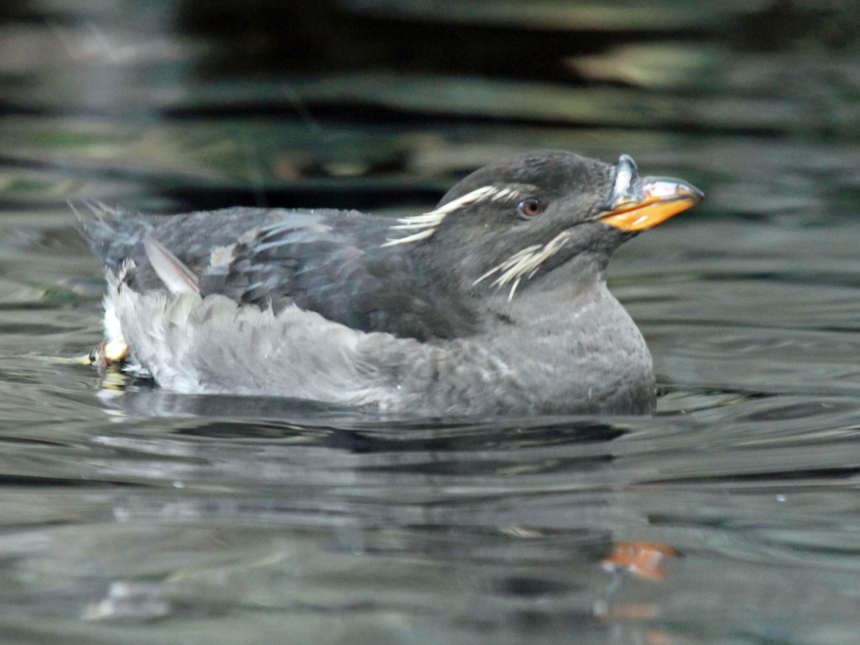 Rhinoceros Auklet (Cerorhinca monocerata) at Alaska Sea Life Center in Seward, Alaska